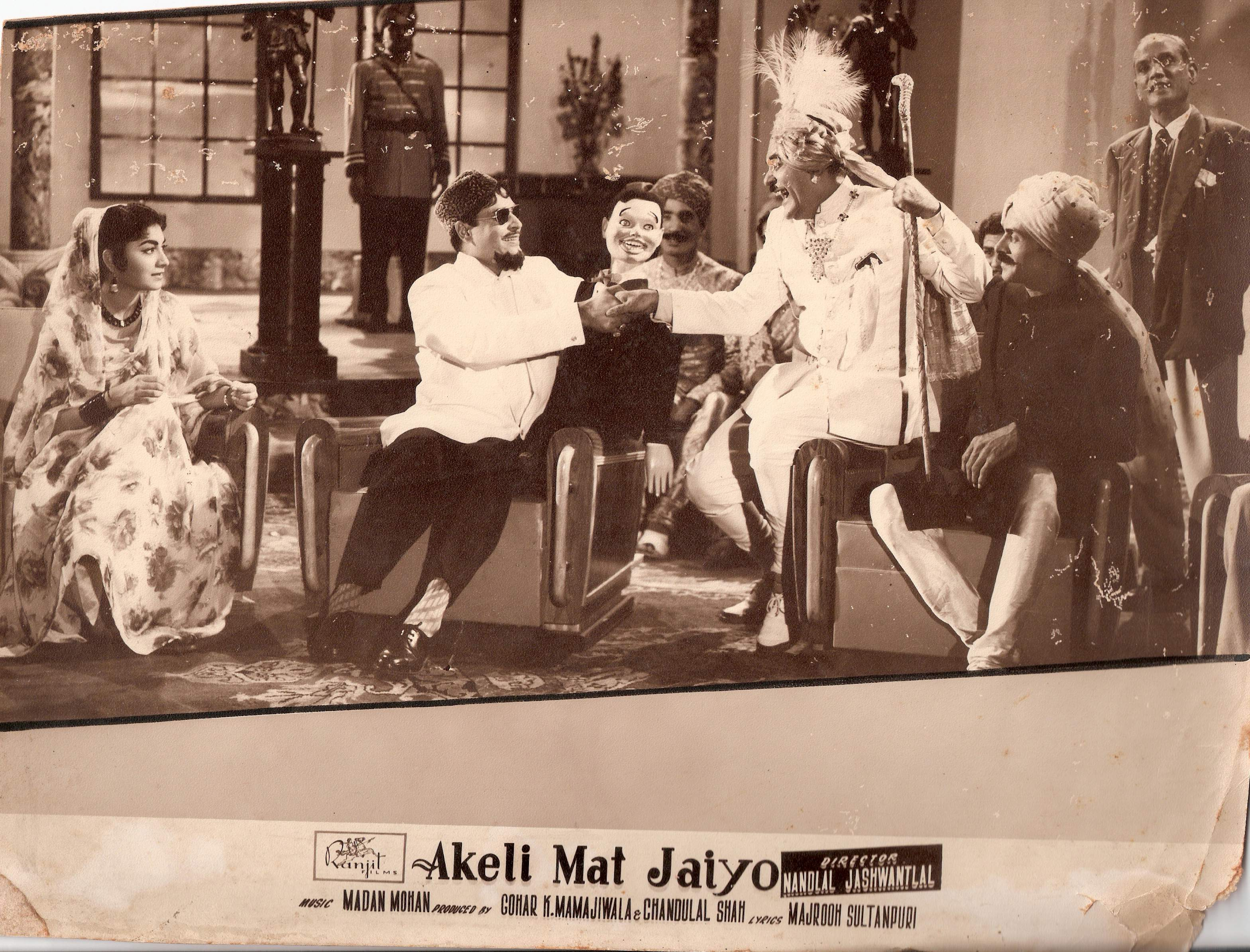 Prof Y K Padhye's puppet used in the Hindi film "Akeli Mat Jaiyo"